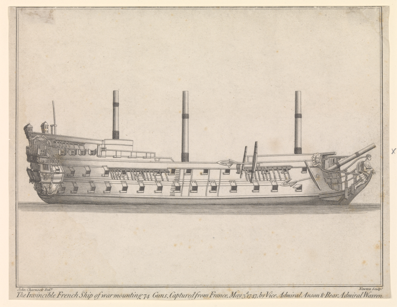 The Invincible French Ship of War mounting 74 Guns, Captured from France, May 3d 1747, by Vice Admiral Anson & Rear Admiral Vernon.